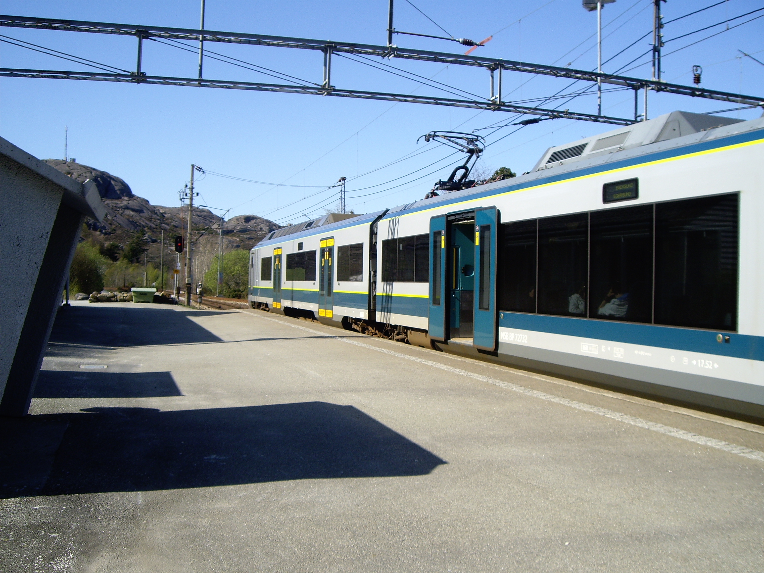 Hellvik station on Jærbanen/Sørlandsbanen